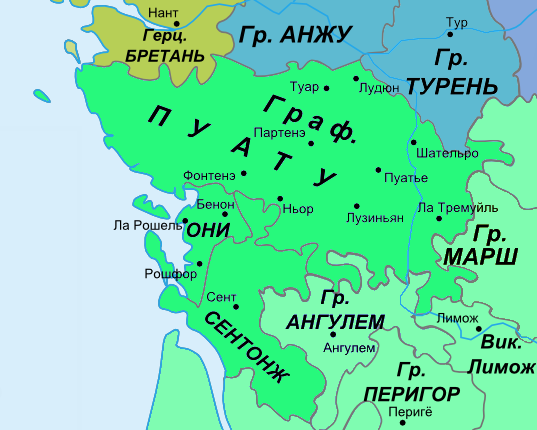 County of Poitou, 1154